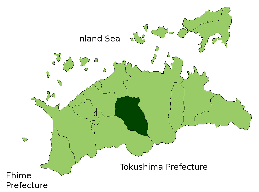 Map of Kagawa Prefecture highlighting Ayagawa town. Borders of map as of October, 2006. (blank map used from [1]) See also Image:KagawaMapCurrent.png